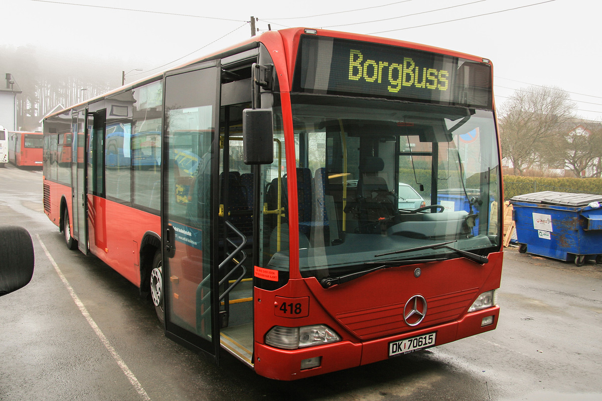 Mercedes-Benz O 530 Ü Citaro from BorgBuss at the depot in Sarpsborg.